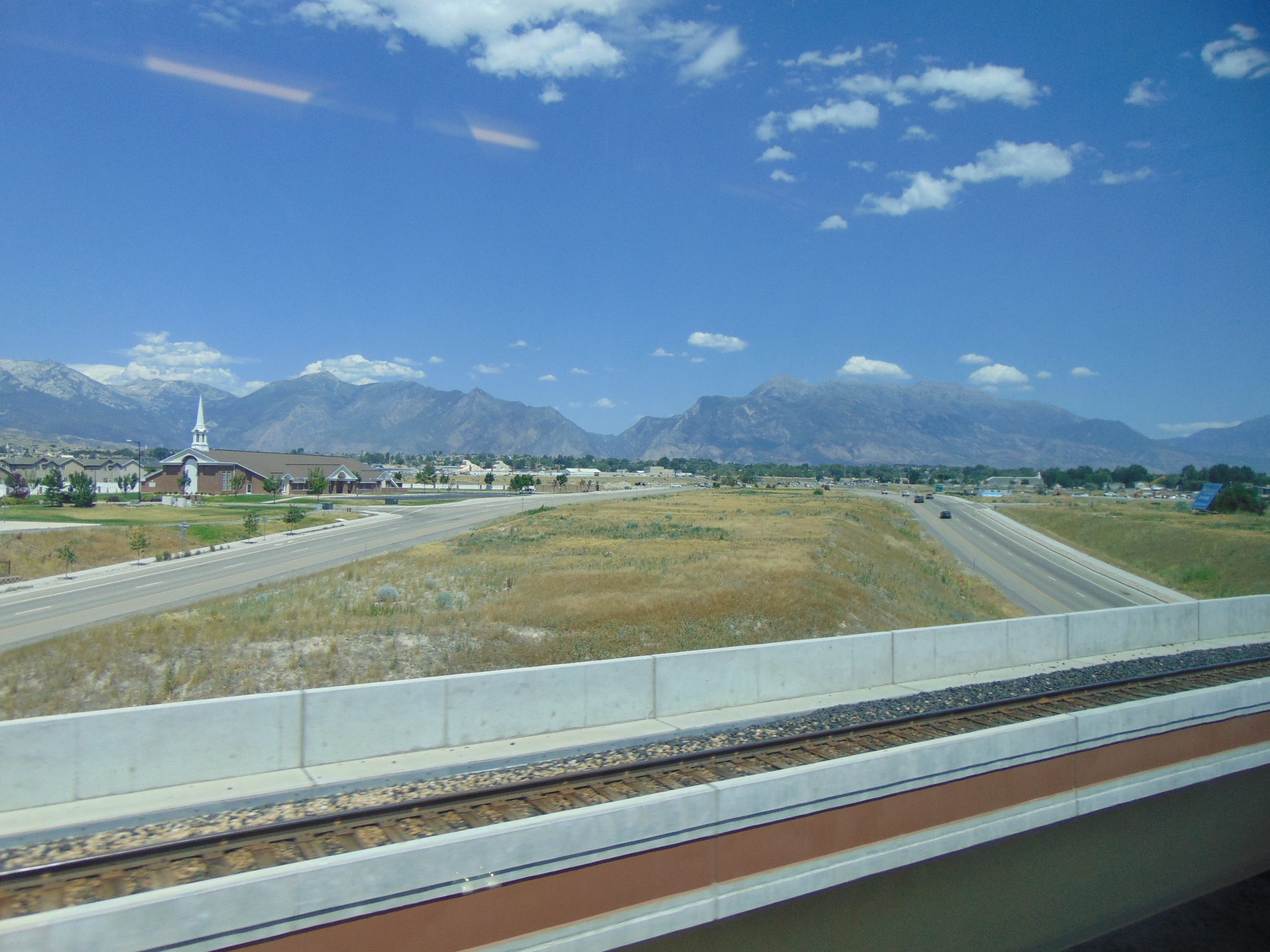 Looking east along Utah State Route 194 (West 2100 North), formerly Utah State Route 85, in northwestern Lehi, Utah, with Wasatch Ranged in the distance, June 2016